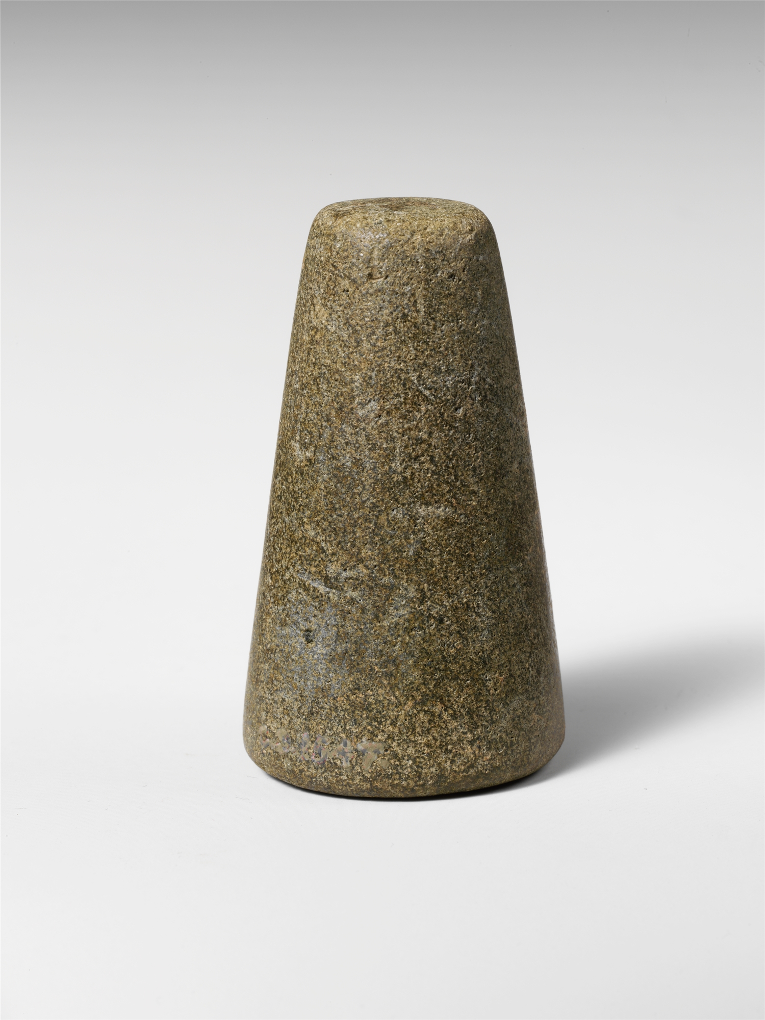 Cypriot; Pestle; Miscellaneous-Stone